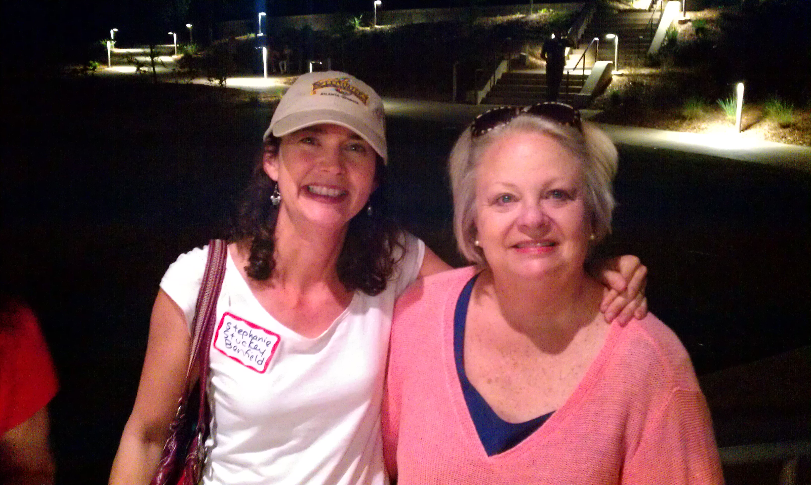 Stephanie Stuckey Benfield (D-85 Atlanta) and Mary Margaret Oliver (D-83 Decatur)